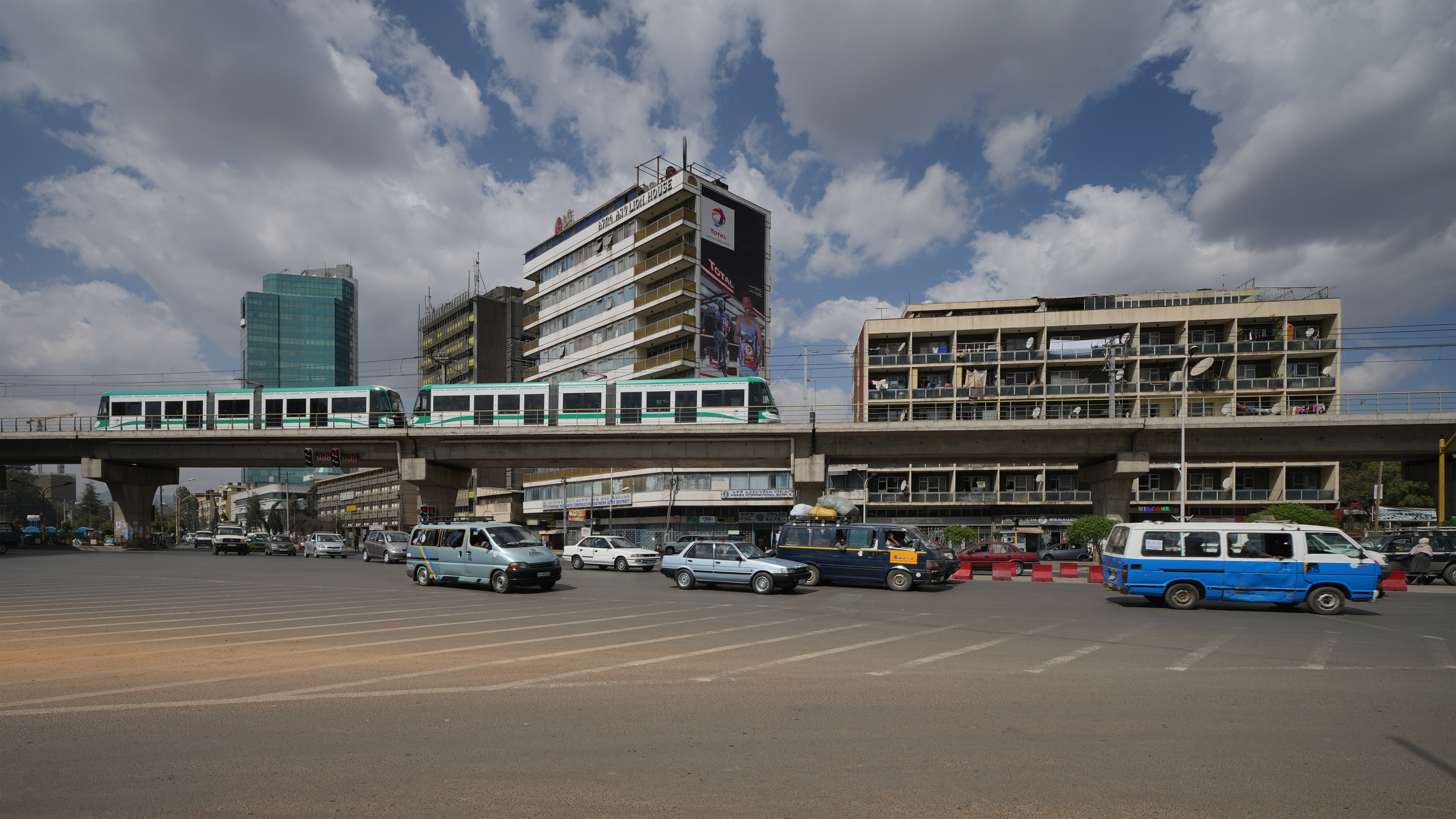 Meskel Square in Addis Ababa, Ethiopia